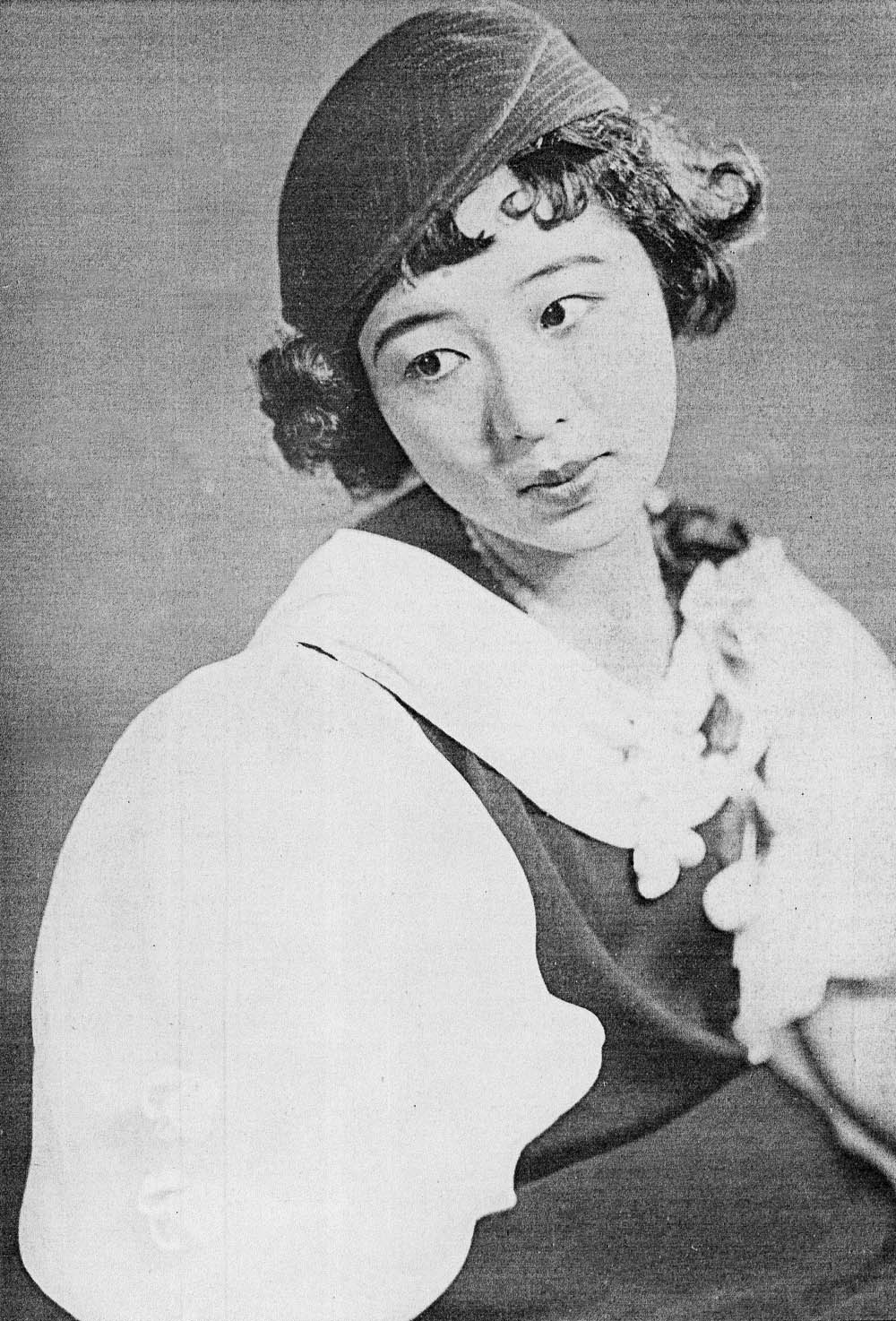 Portrait of the actress Haruyo Ichikawa